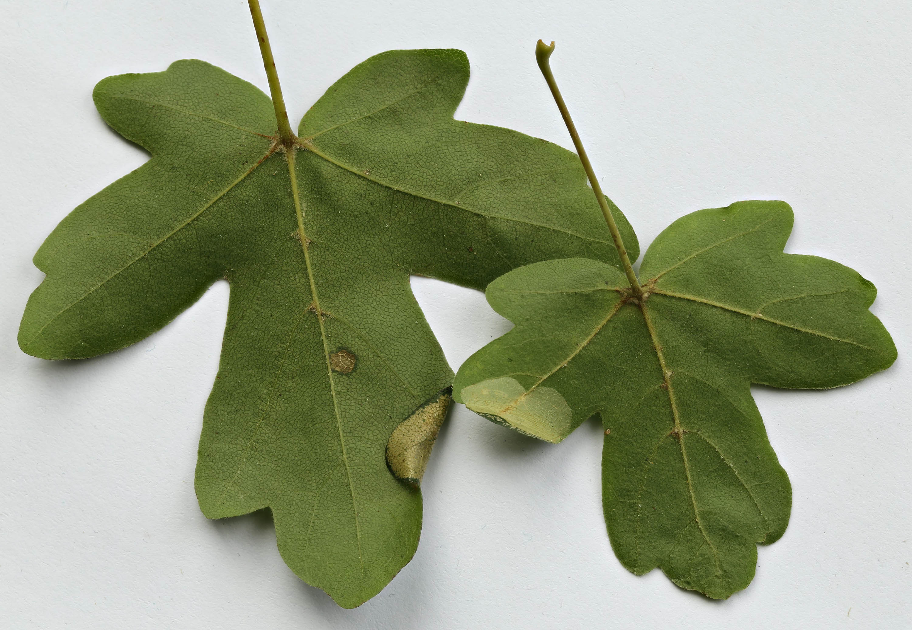 Phyllonorycter acerifoliella, Breidden Hill, North Wales, Sept 2016